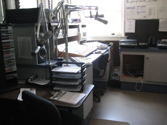 Photo of the KTXT studio.